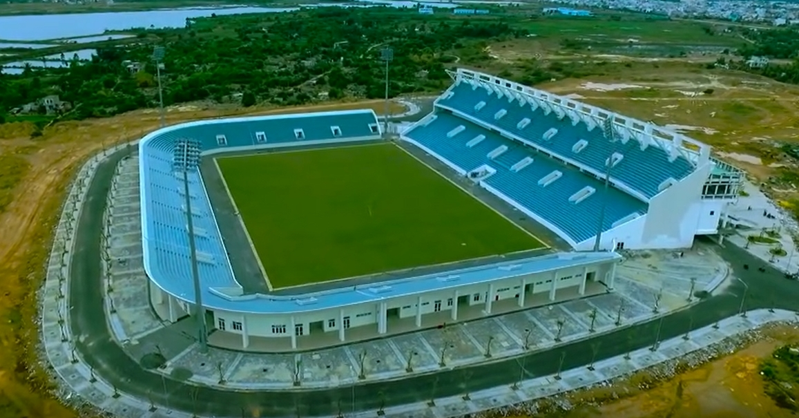 Image of Hoa Xuan Stadium, Danang, Vietnam